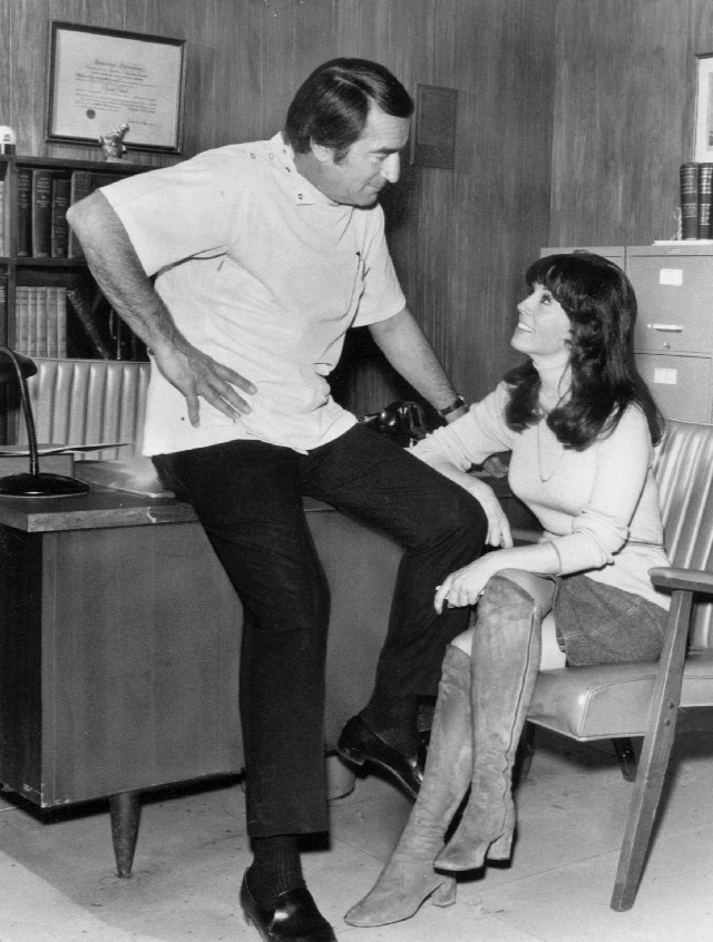 Photo of John Beradino and Denise Alexander from the daytime drama General Hospital.